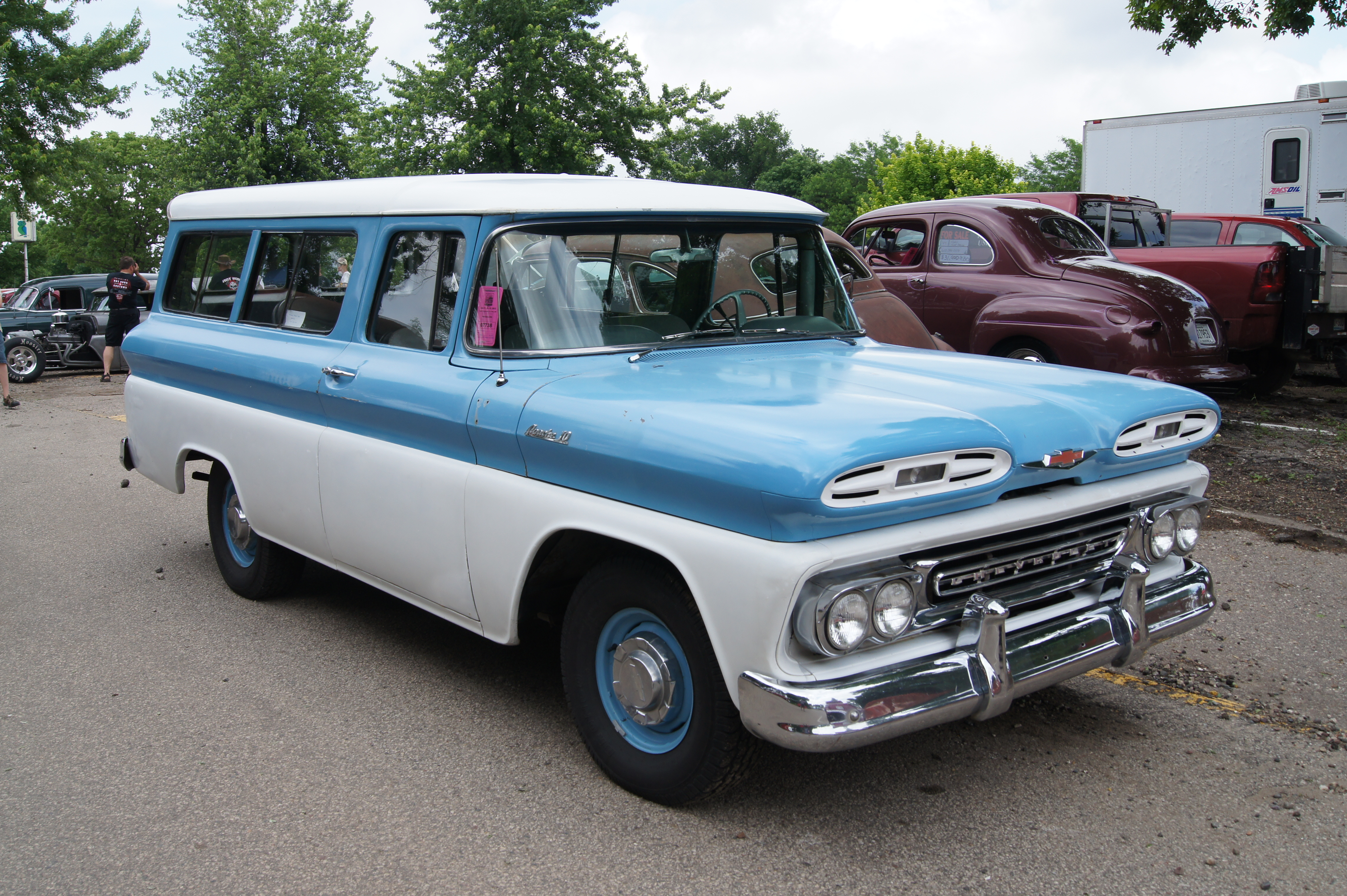 1961 Chevrolet Suburban.MSRA “BACK TO THE 50′s” - 40th ANNIVERSARY - June 21-23, 2013State Fairgrounds, St. Paul Minnesota.